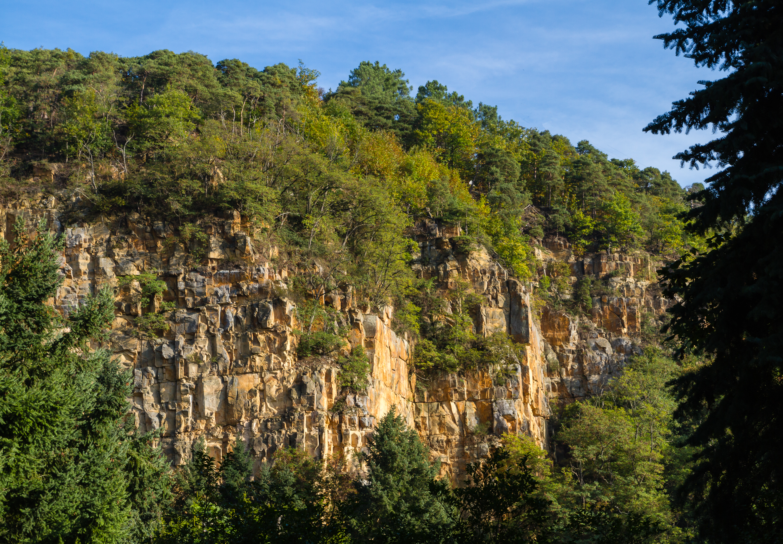 Title: Sandstone rocks in the Klausental near Neustadt-Königsbach Type: Natura 2000 Number: 6812-301 Designation: Biosphere reserve Palatinate Forest Location: Rhineland-Palatinate, Federal Republic of Germany Description: Bunter sandstone low mountain range with wide beeches and oaken old-growth forest. Rocks, streams and meadow valleys with varied standing water bodies. On the eastern edge calcareous dry grassland areas.